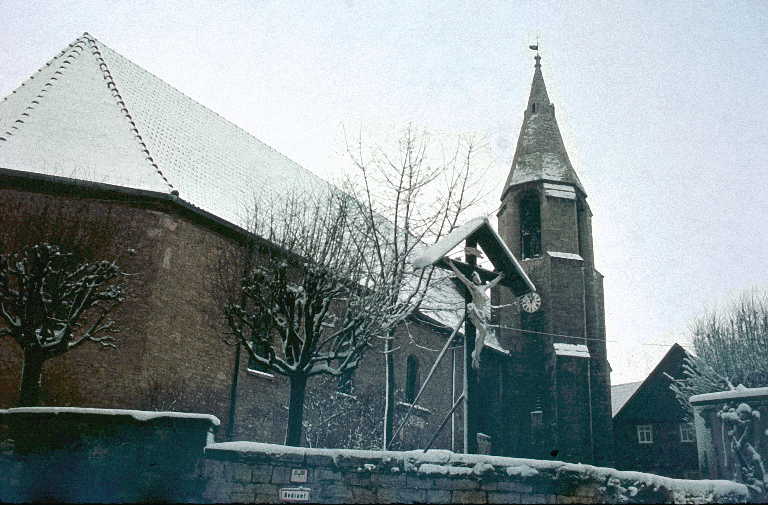 Deuna, the church St. Peter and Paul